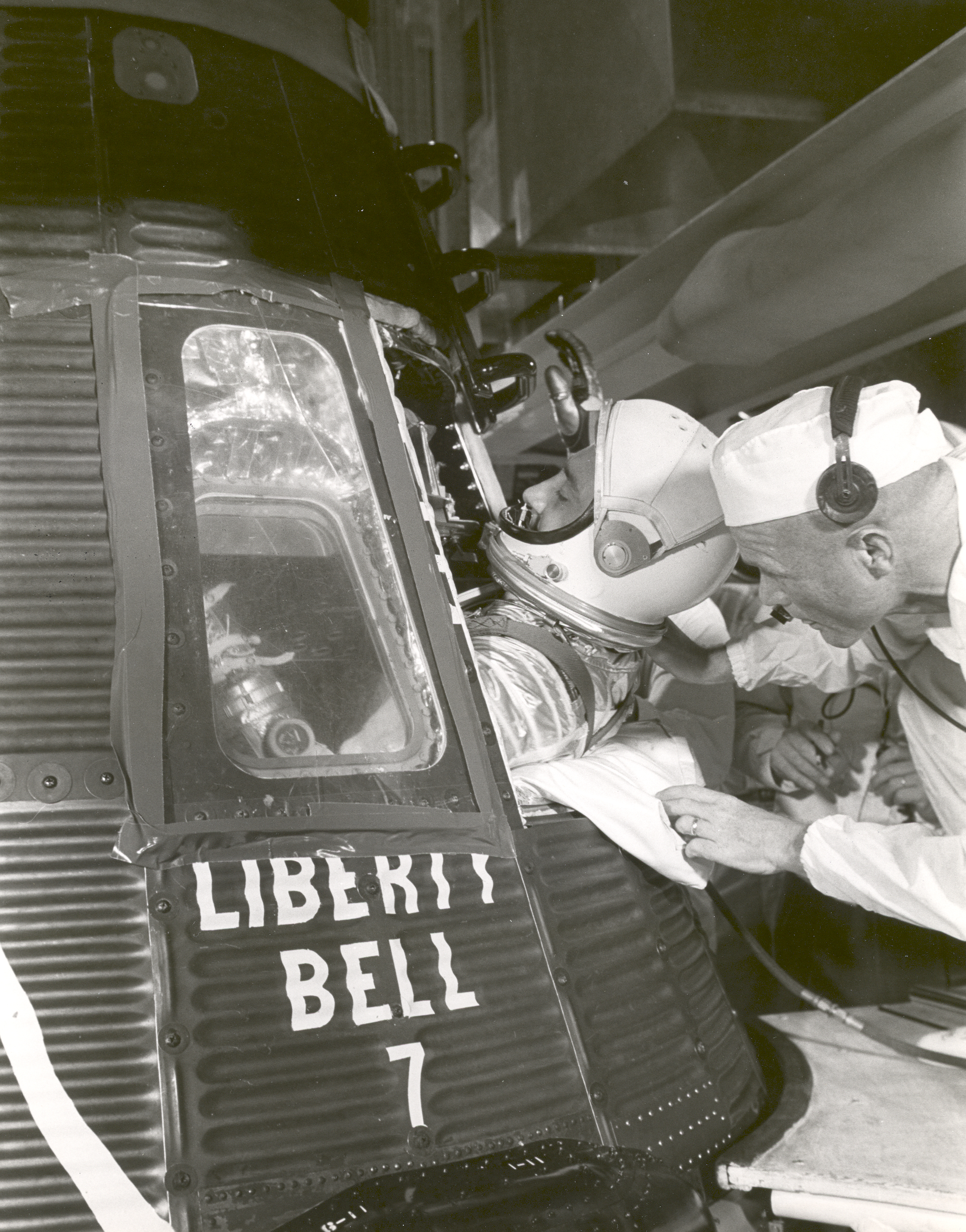 Astronaut Virgil I. Grissom climbs into "Liberty Bell 7" spacecraft the morning of July 21, 1961. Backup Astronaut John Glenn assists in the operation. The Mercury-Redstone 4(MR-4) successfully launched the Liberty Bell 7 at 7:20 am EST on July 21, 1961. MR-4 was the second in a series of successful U.S. manned suborbital flights.